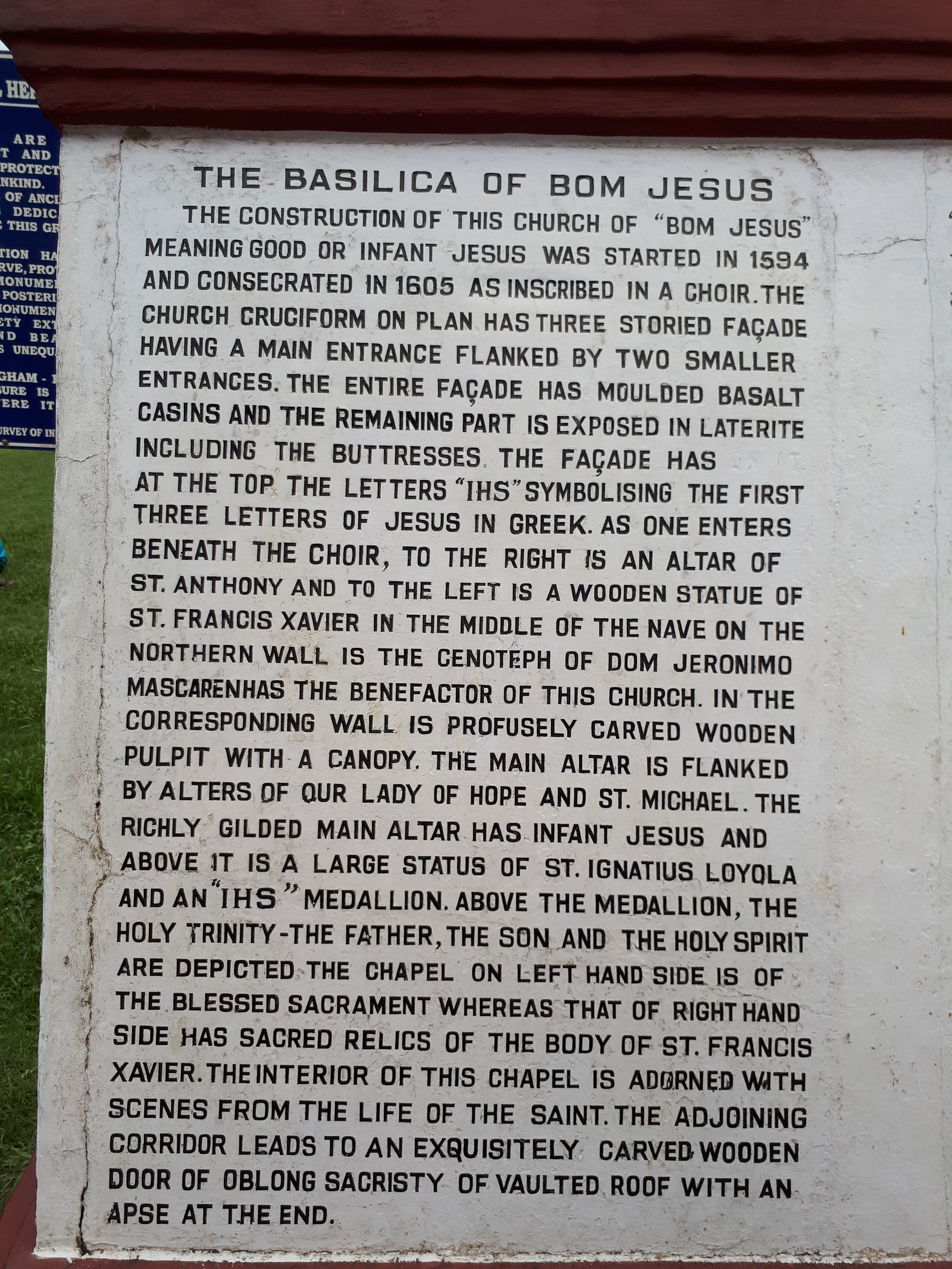 The pic shows the rock carving before entering the site. It shows the details and a brief introduction of visitors to the Basilica of Bom Jesus